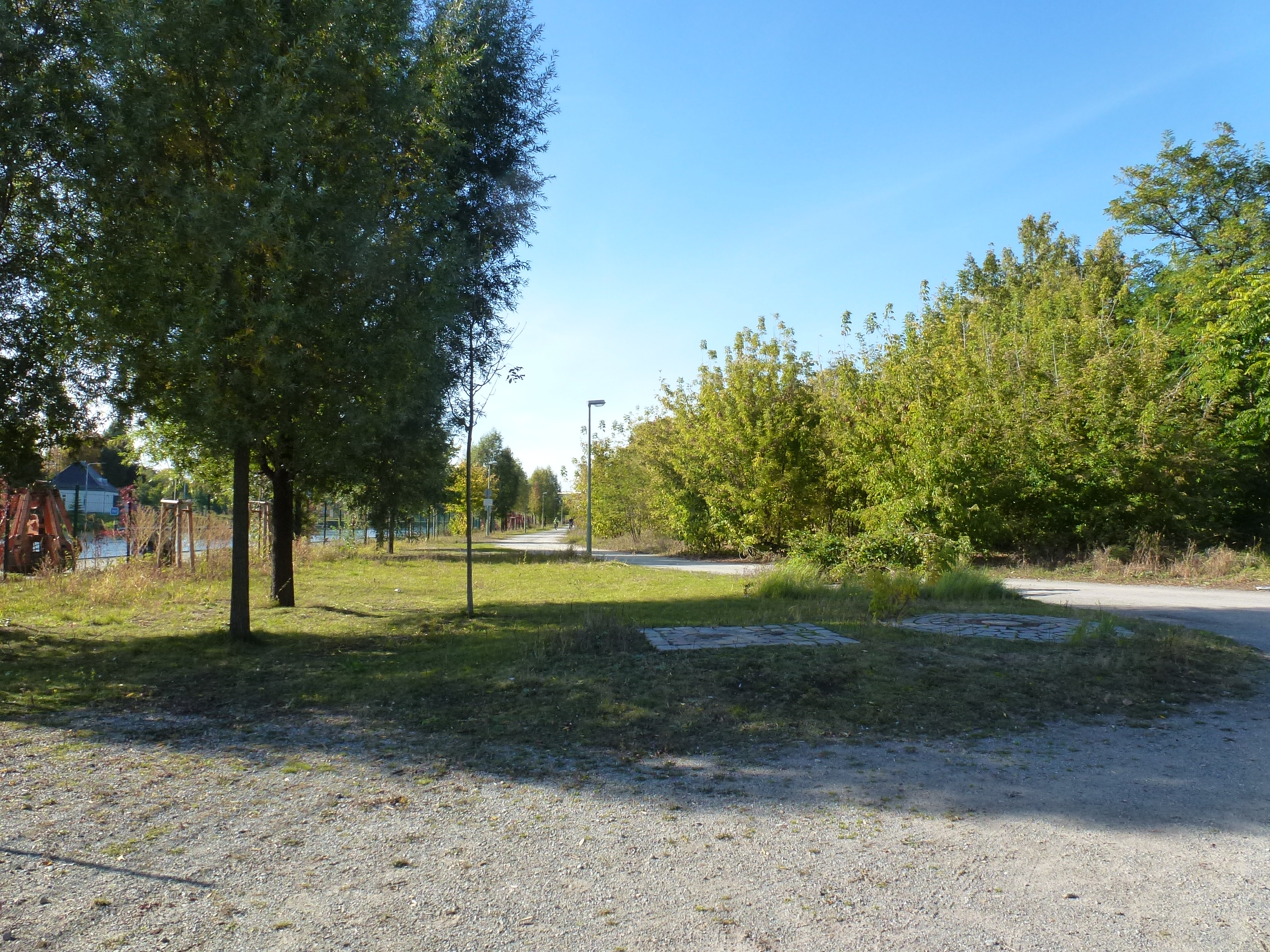 Berlin-Charlottenburg-Nord Nonnendamm